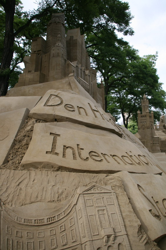 Sand Academy at Hague